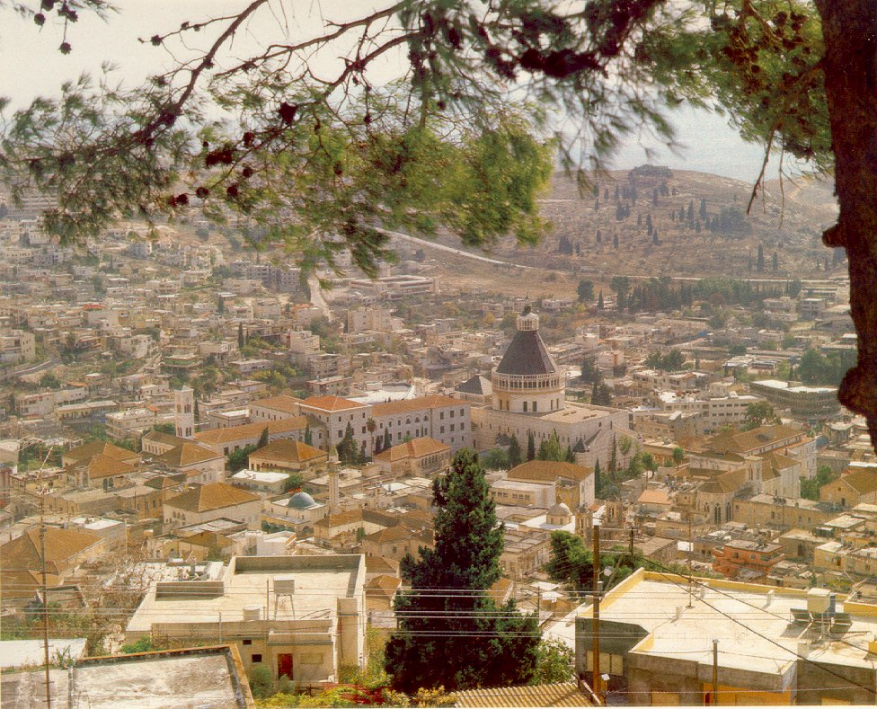 View of Nazareth.